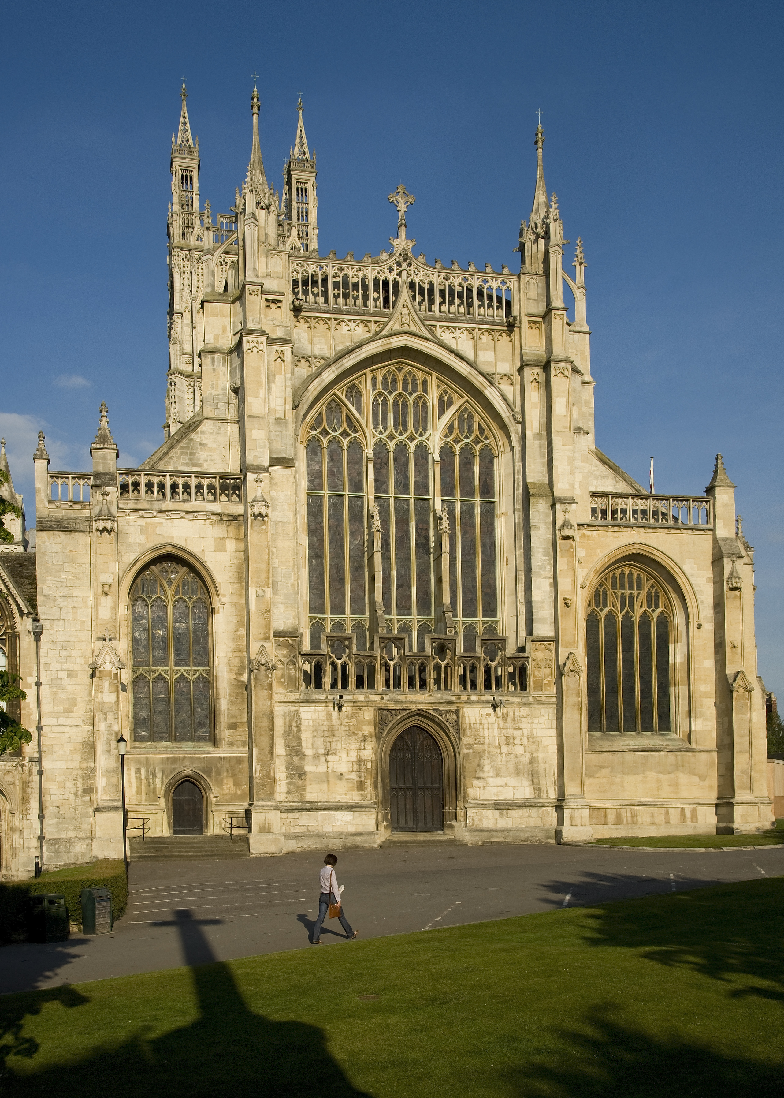 Gloucester Cathedral, Gloucester, England, west front. Foundation stone of the new abbey church laid in 1089.